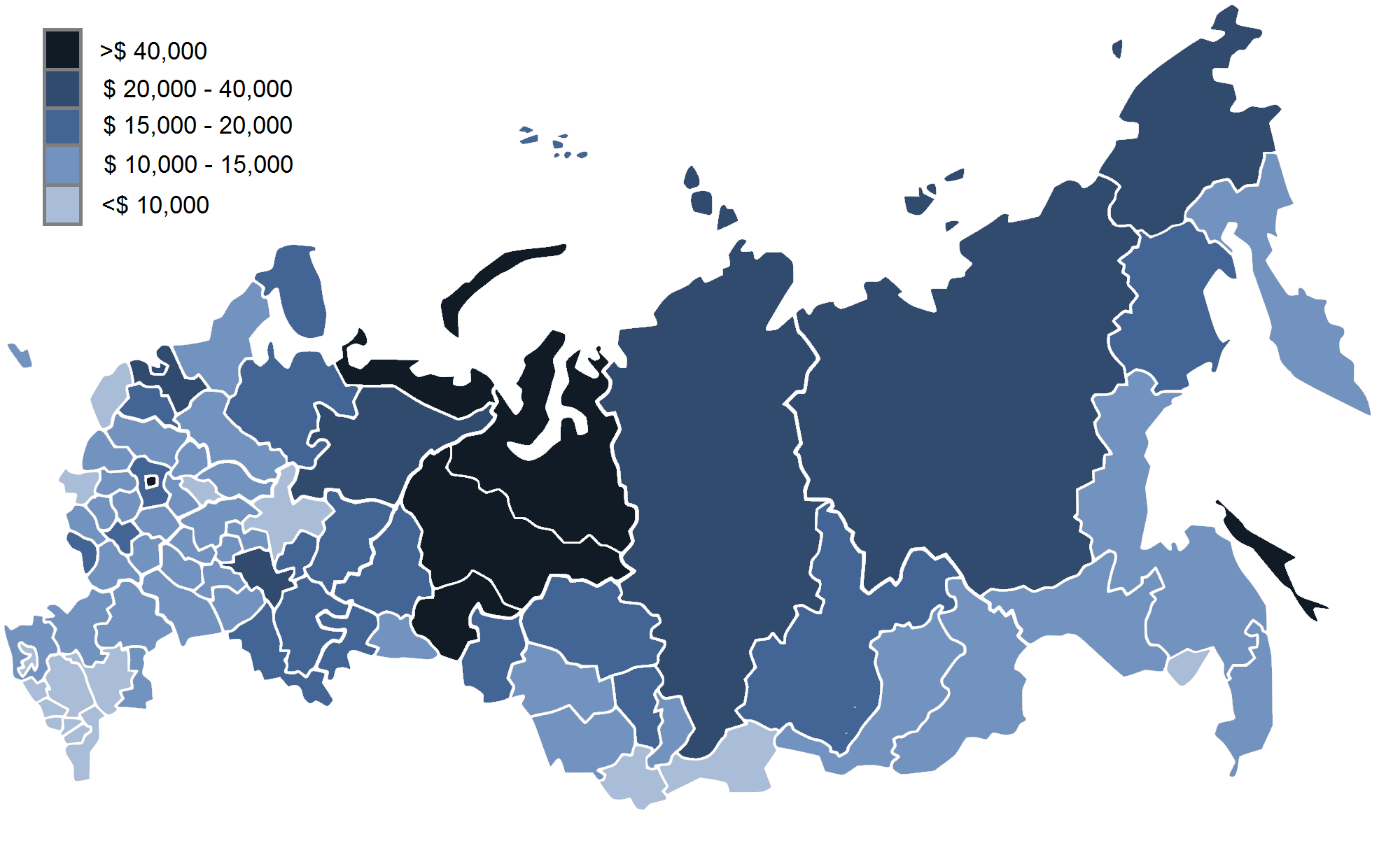 Russian federal subjects by GDP per capita, data from List of Russian federal subjects by GDP per capita